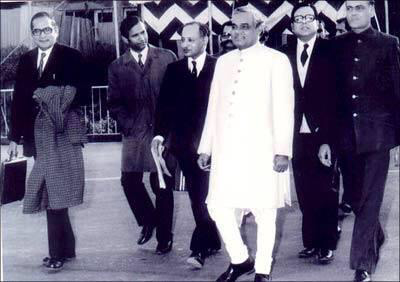 Dr Singh (Extreme Left) accompanying the then Minister of External Affairs, Shri Atal Bihari Vajpayee and other dignitaries in the capacity of Joint Secretary Pakistan, Iran and Afghanistan.